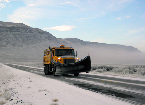 In the shadow of the Abert Rim in south central Oregon, ODOT plows US395 to keep motorists safe.